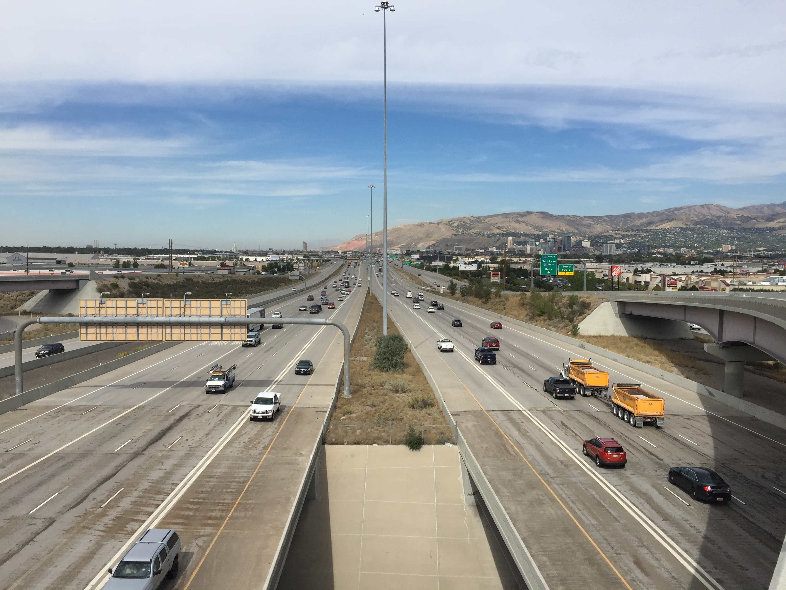 View north along Interstate 15 and west along Interstate 80 looking towards Salt Lake City, Utah from South Salt Lake, Utah